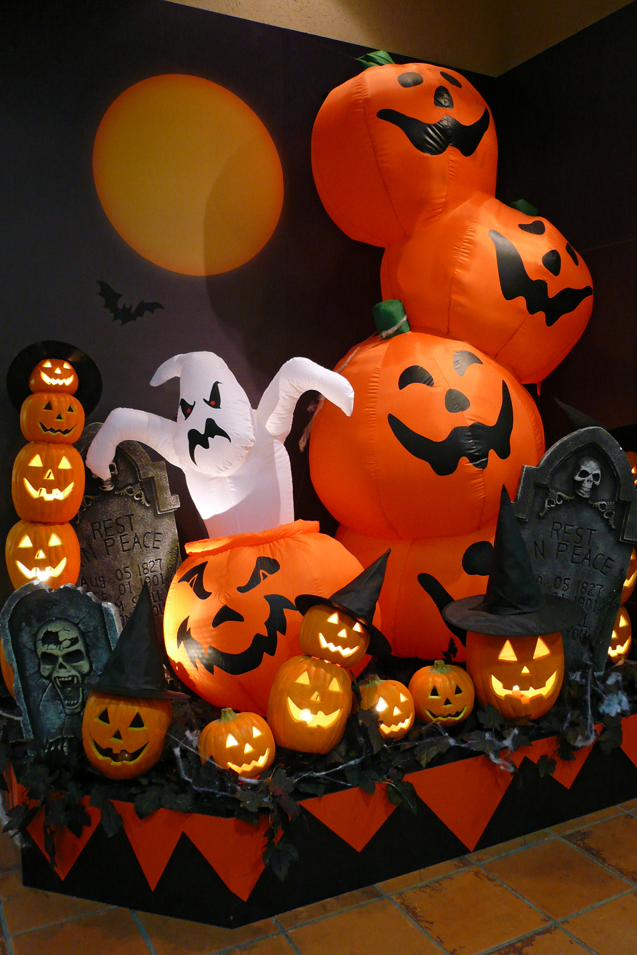 "MOSAIC" of Harborland in Kobe, Hyogo prefecture, Japan